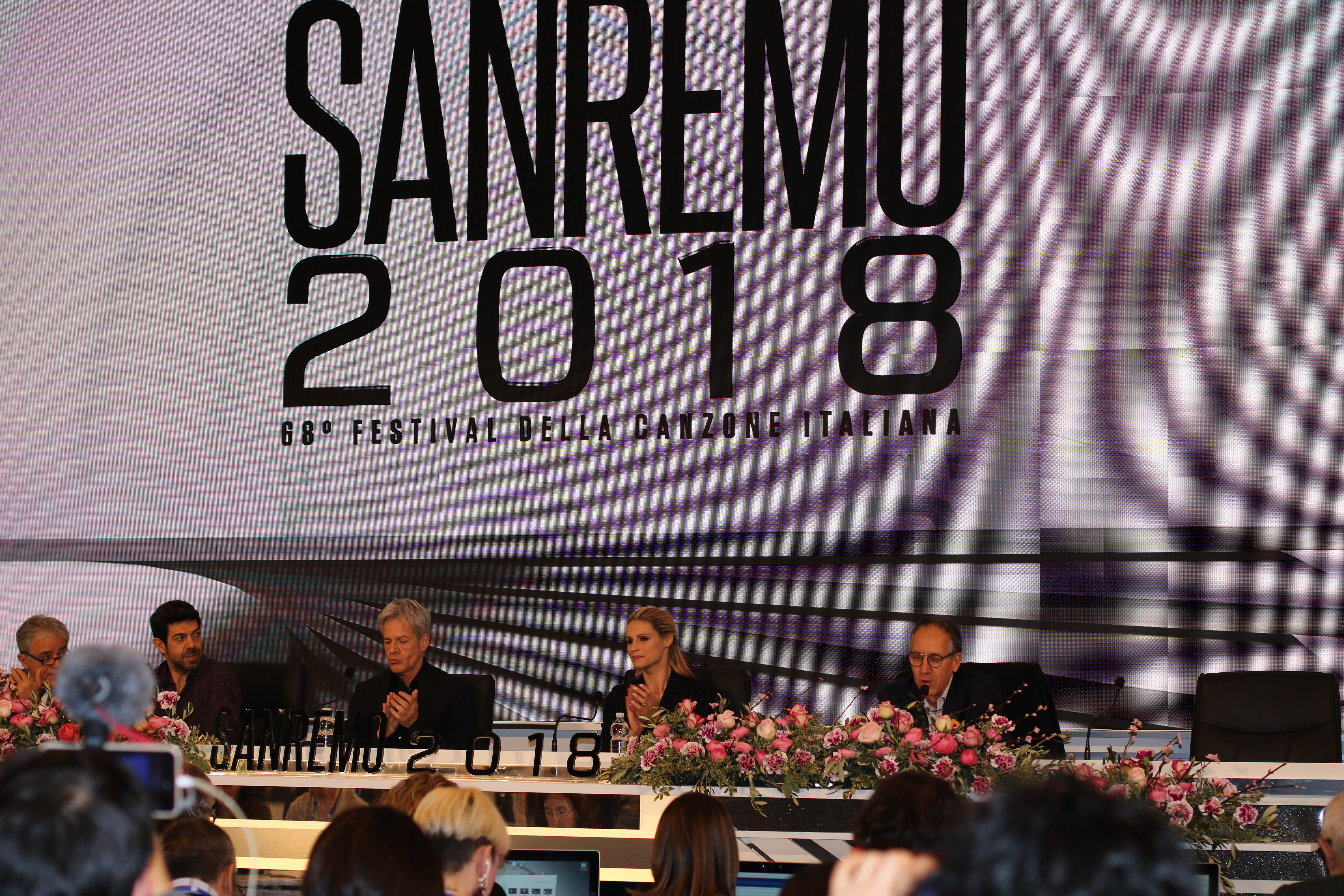 SR